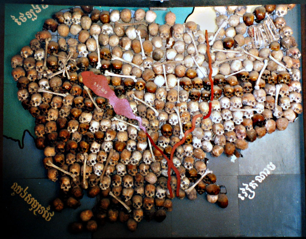 This is the infamous skull map that was on display in the former S-21 prison camp at Tuol Sleng, in Phnom Penh, Cambodia.